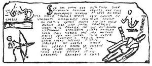 The Epitaph Stone from a paper describing the remains of the memorial stones to Sir Thomas Cusack given in 1999 to Trinity College Dublin Ref MS 11096 Box 98